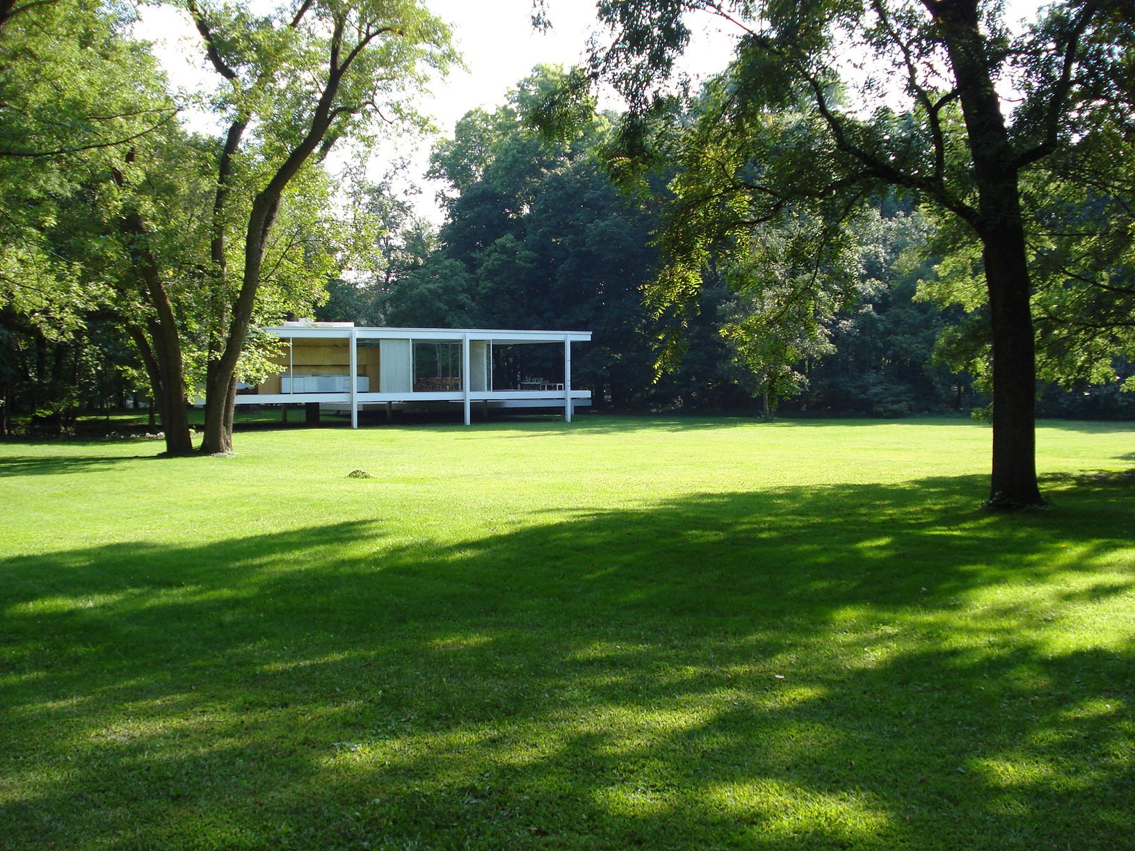 Farnsworth House (Illinois) by Mies van der Rohe